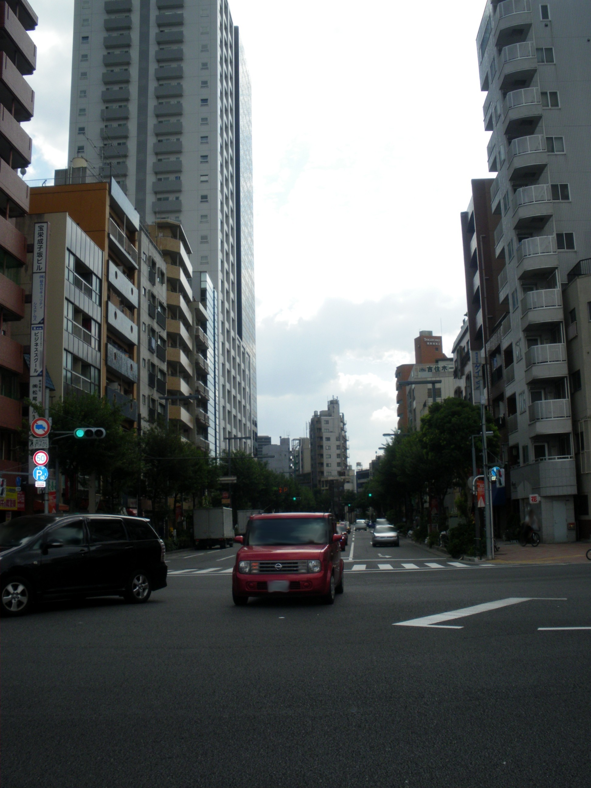 A photo of Narukozashita intersection,Shinjuku-ku,Tokyo,Japan.